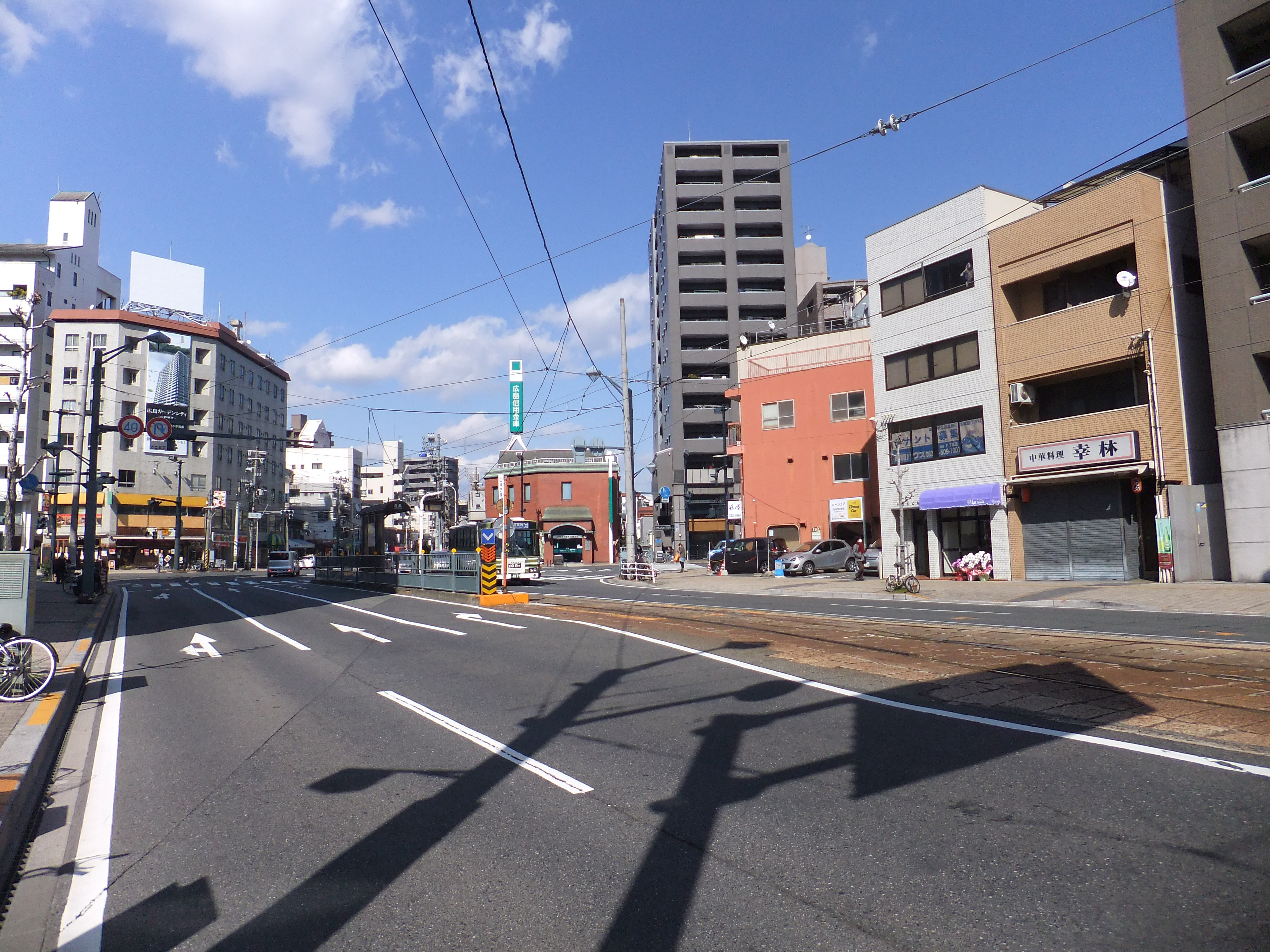 Hiroshima Electric Railway Hakushima Tram Stop